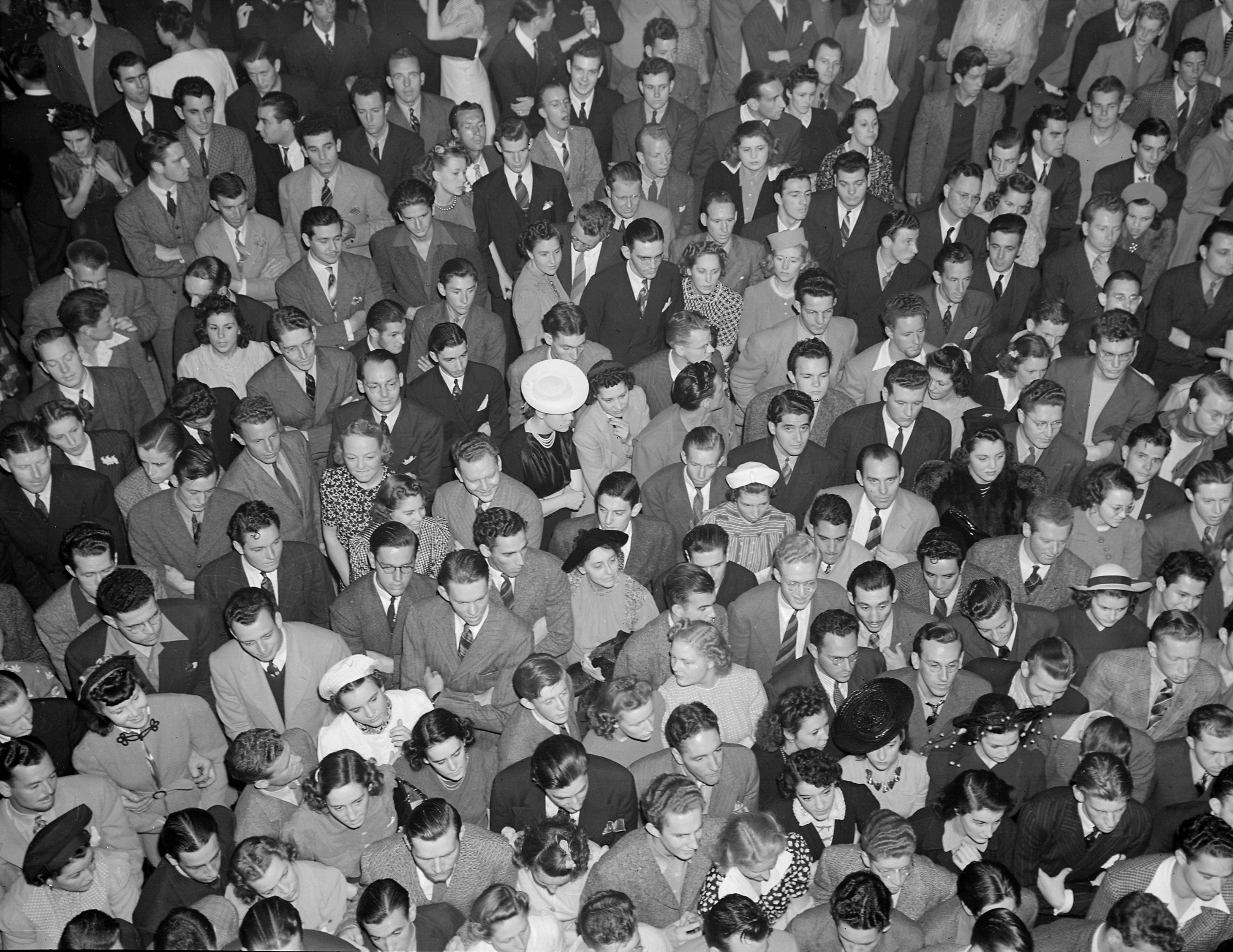 Oakland, California. Hot Jazz Recreation. A crowd of young people at the concert of the Benny Goodman Band which took place in a local dance hall (Modified from TIF original: removed black borders; removed some specks; adjusted contrast)